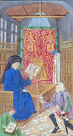 Robert de Namur reading a book and receiving a messenger of the king of France, with Jean Froissart writing, at the beginning of the Chroniques of Froissart. British Library, Royal 14 D II f. 8